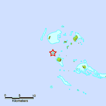 localisation map of Kito island, Ha'apai (Tonga)